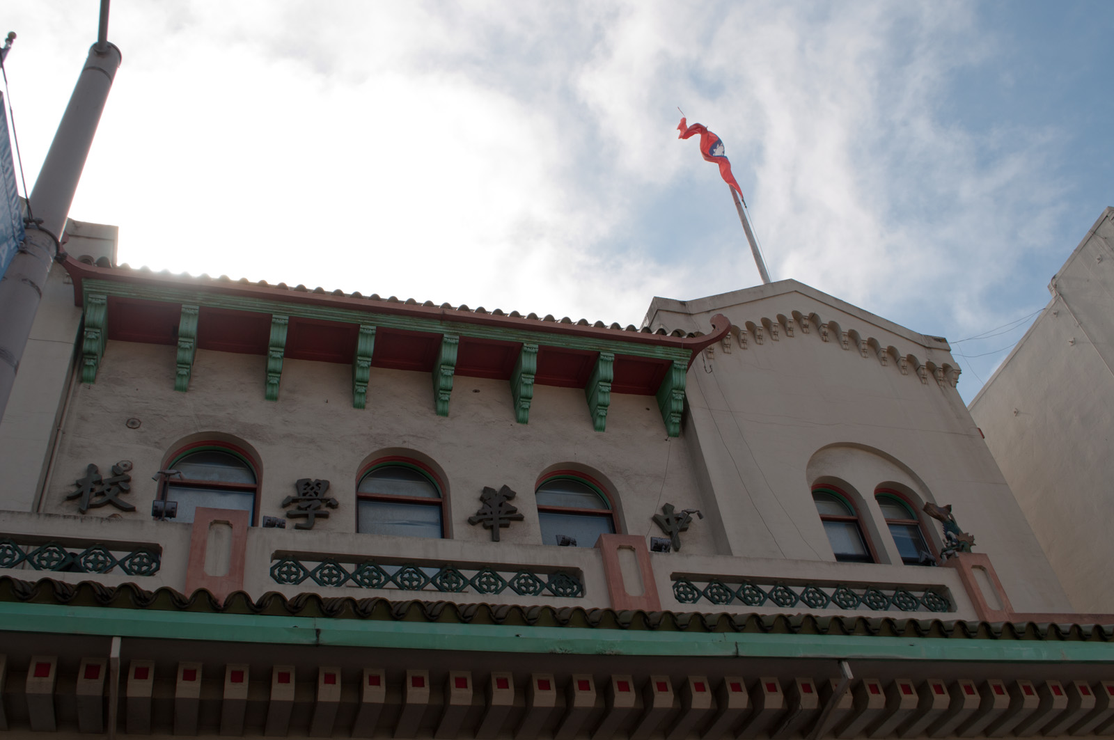 San Francisco's Chinese population dates back all the way to the 1840s Gold Rush. The Chinese have been an integral part of San Francisco's social fabric ever since, despite severe backlash from the rest of the society that persisted well into the 1960s. This building houses the Chinese Elementary and Middle Schools. Located on Stockton Street across the street from Dr. Sun Yat-sen Memorial Hall, which is run by the Republic of China (Taiwan), this building also displays the Republic of China flag as well.